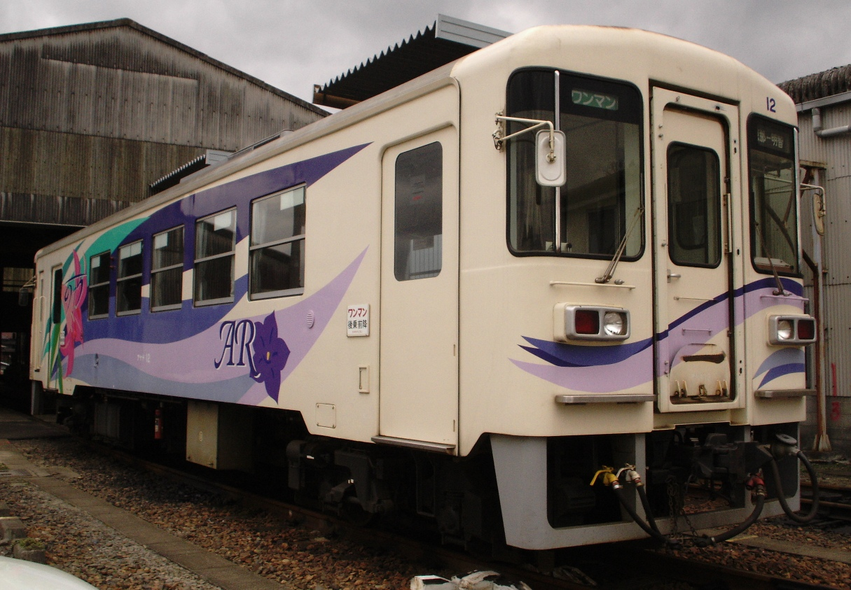 Akechi Railway Akechi 10 series diesel railcar 12 at Akechi Station